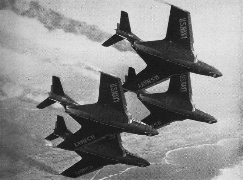 Grumman F9F-8 Cougar jets of the U.S. Navy flight demonstration team Blue Angels in 1956.